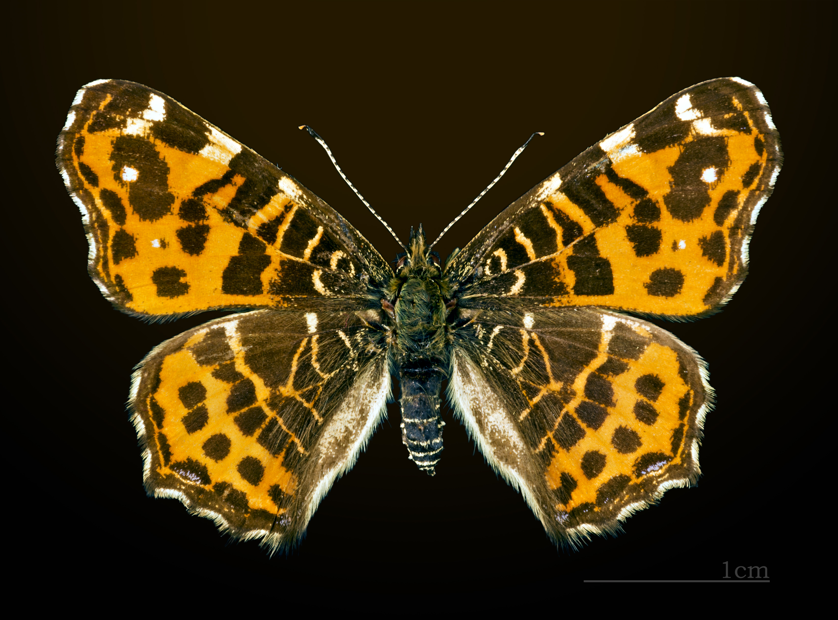 Map - Dorsal side - Generation (Spring), Araschnia levana f. levana